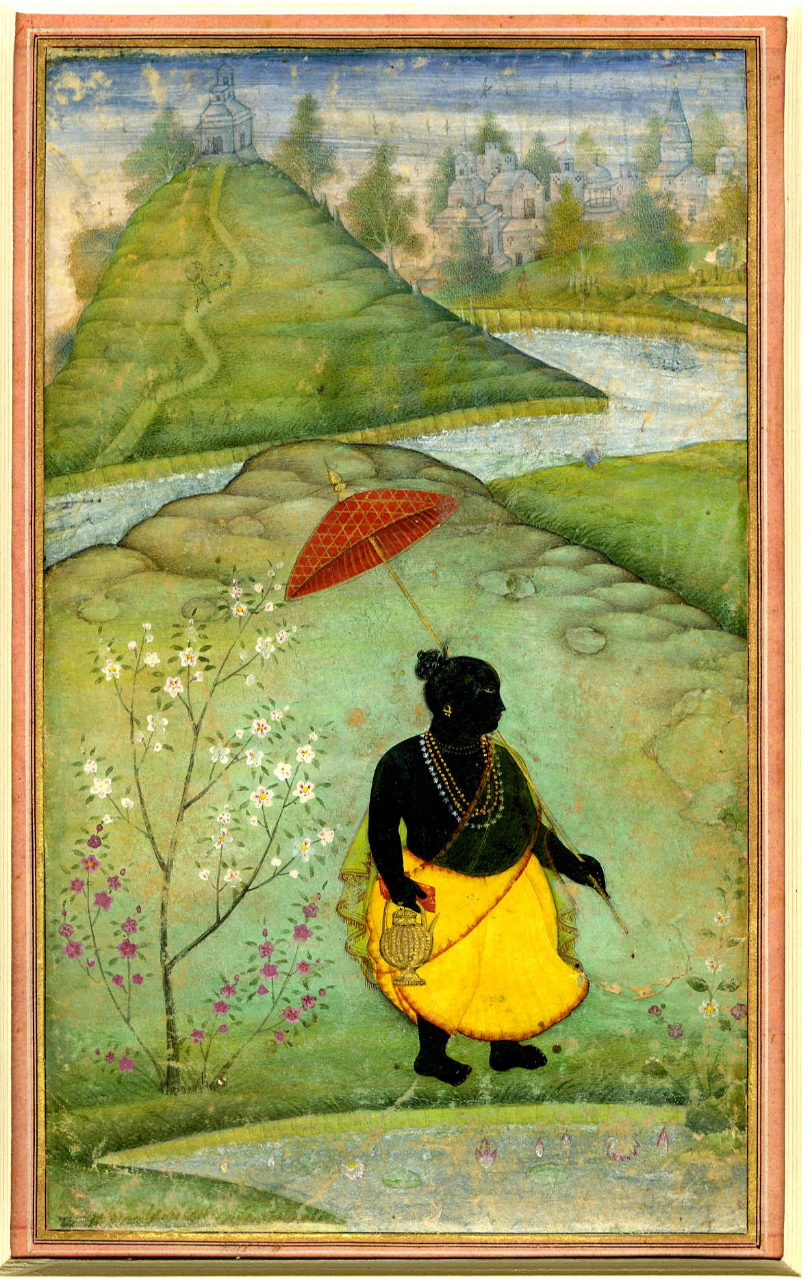 Vamana, the dwarf incarnation of Vishnu Mughal India, about 1610 Opaque watercolour and gold on paper Mughal artists depicted Hindu religious and narrative subjects, and this painting of Vamana may have been based on an actual dark-skinned dwarf. Despite his simple clothing Vamana carries an elegant gold ewer and wears several strands of beads and an earring. Although the light brown beads may have been seeds or made of wood, the white ones appear to be pearls or possibly shells.